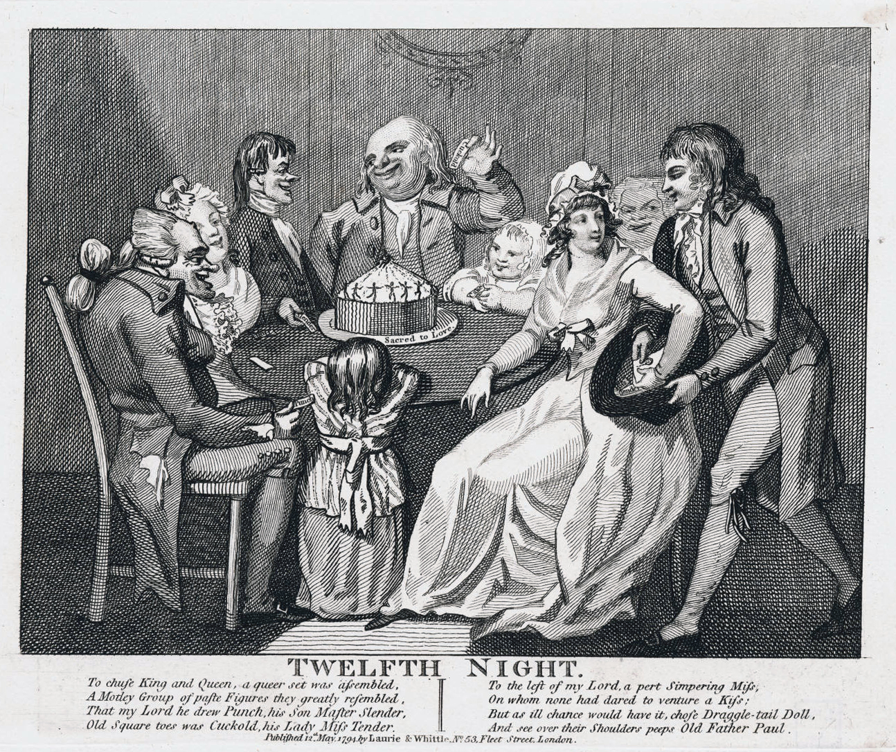 Print on wove paper : etching with stipple ; plate mark 19.8 x 24.7 cm., on sheet 24 x 28 cm.